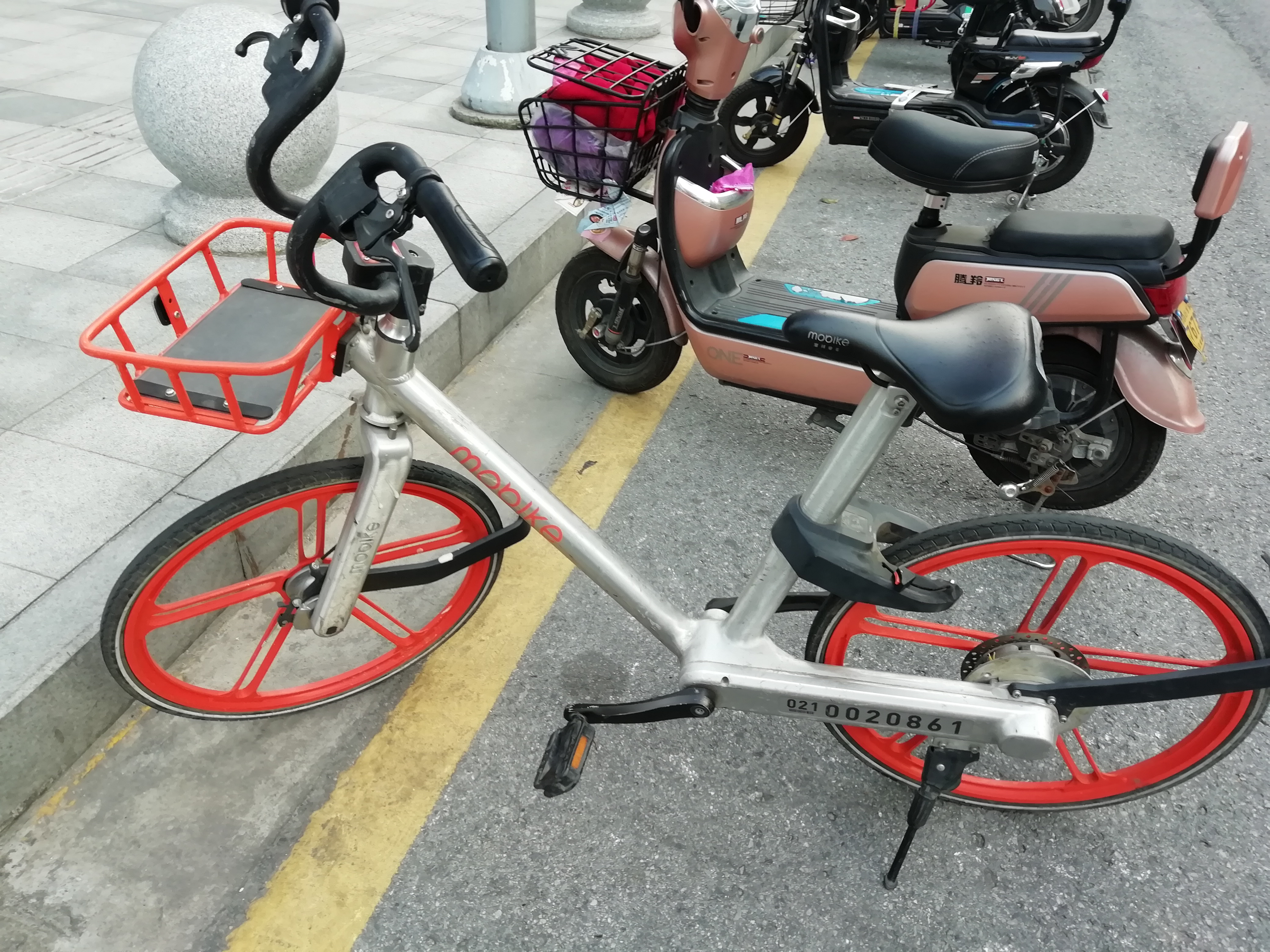 A Mobike, with the number 0210020861 (I think this bicycle is from Shanghai), is stopped at the parking area on the road in Suzhou Industrial Park.